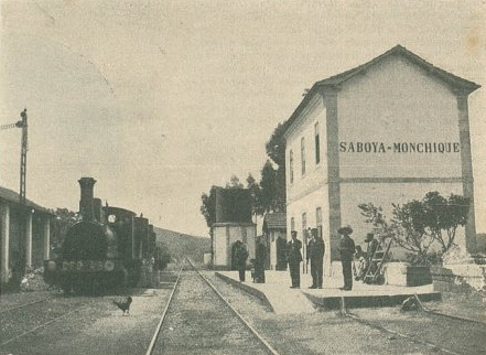 Sabóia-Monchique Railway Station, in Portugal, that would be later renamed to Santa Clara-Sabóia. This image was published on the Ilustração Portuguesa magazine No. 110, of the 11th December 1905, and scanned by the Hemeroteca Municipal de Lisboa.